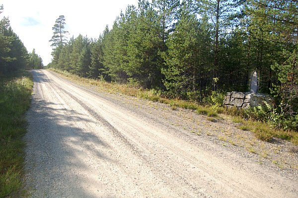 The old country road Kustlandsvägen, north of Sävar, Sweden.